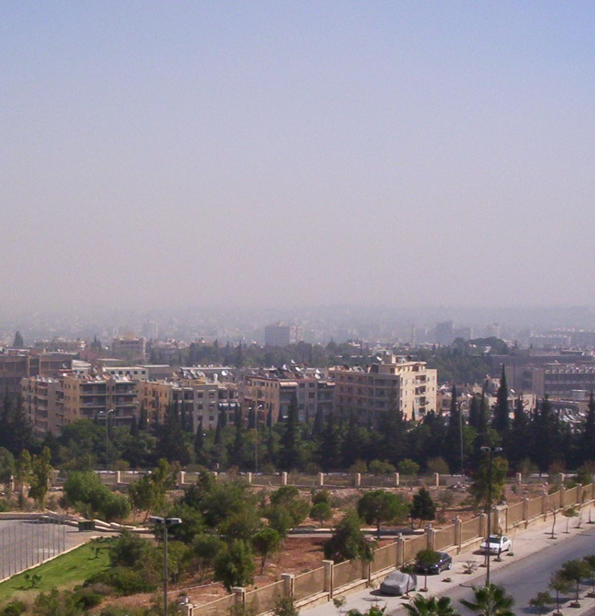 Air pollution in Aleppo, Syria in the summer 2006